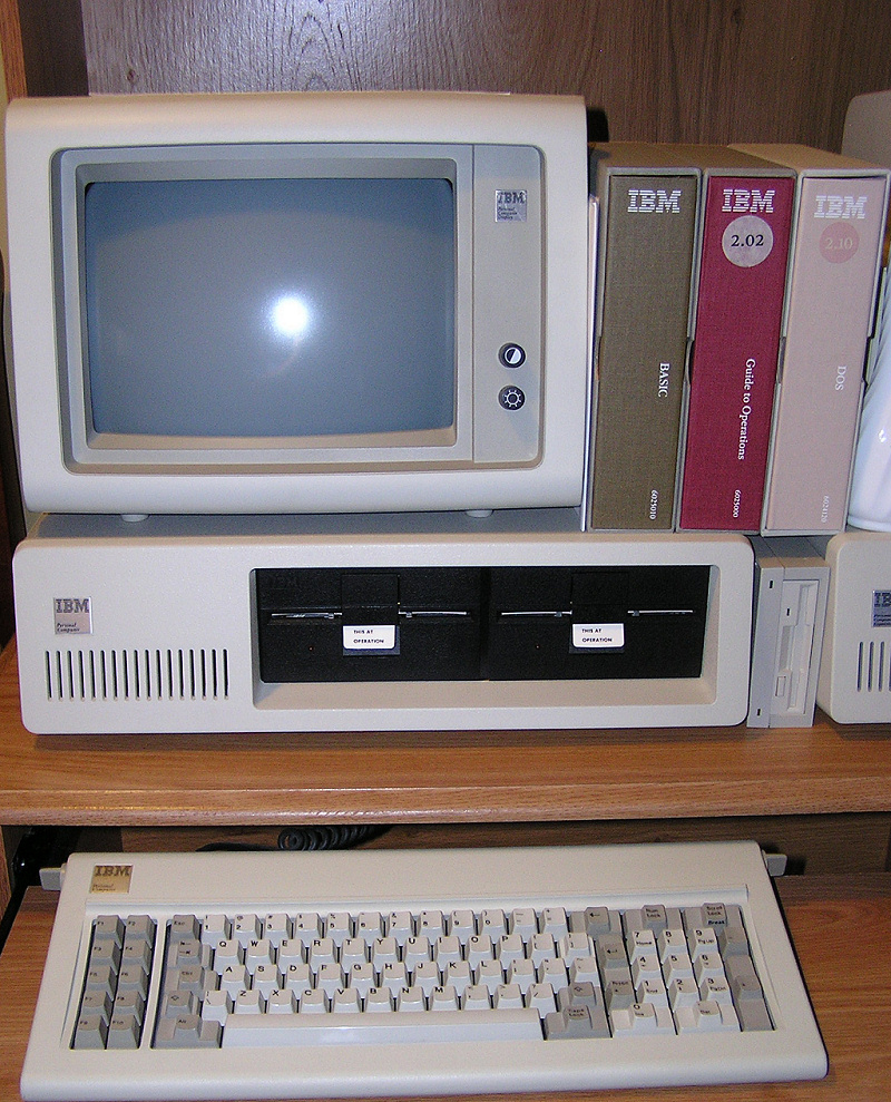 IBM 5150 Personal Computer System With IBM 5151 Monochrome Display Keyboard DOS 2.1 Guide To Operations And Basic Manuals.